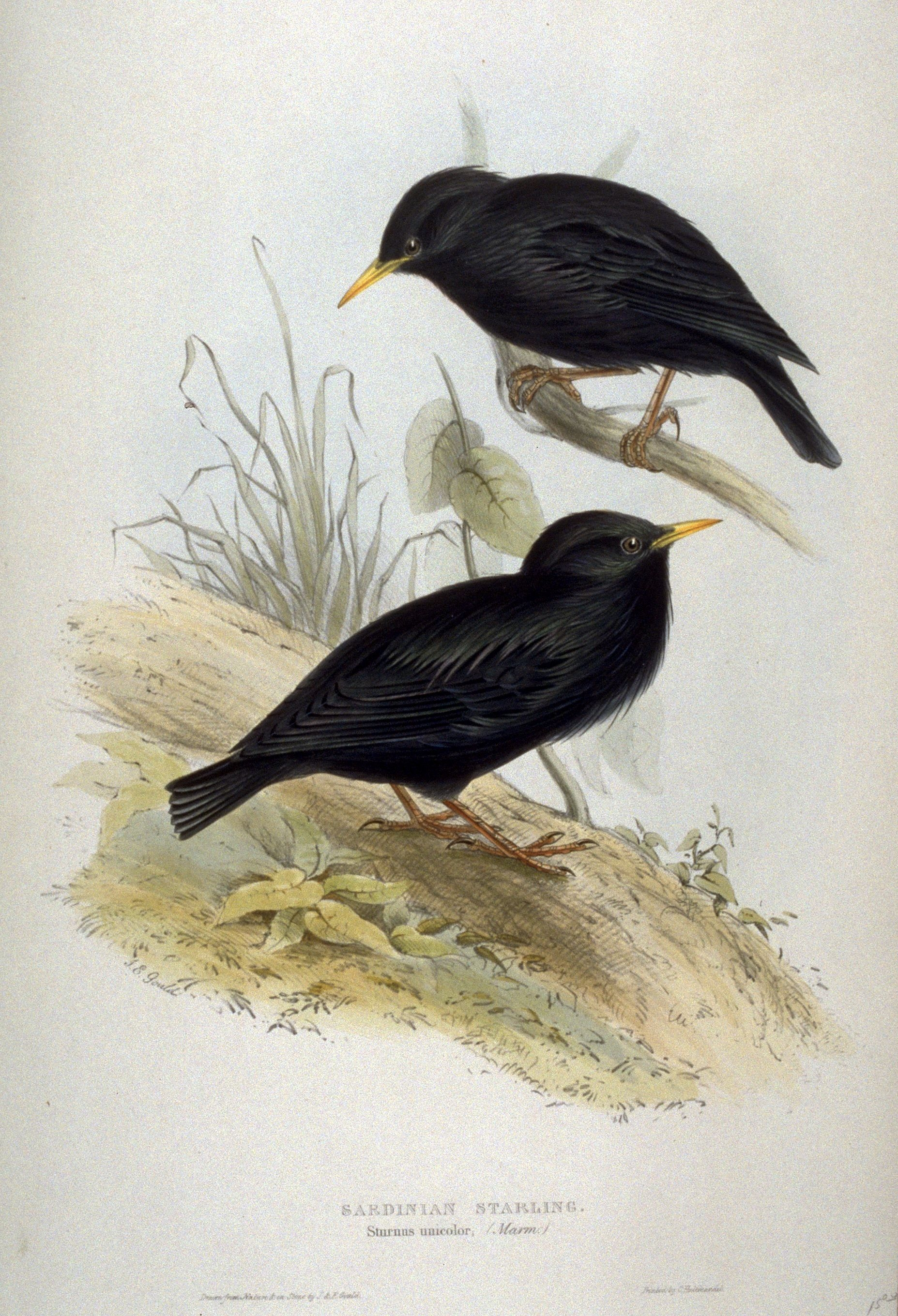 Sturnus unicolor (Sardinian Starling) lithograph with hand coloring - 35.4 x 27.8 cm (image); 47.3 x 34.9 cm (sheet)